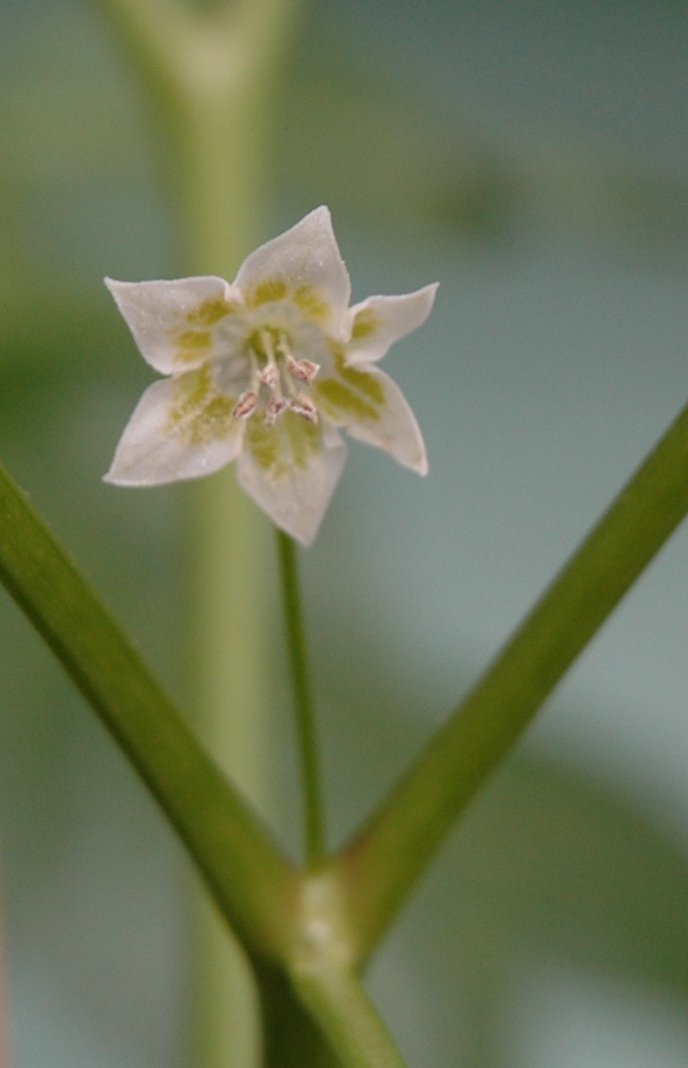 Flower of Capsicum baccatum cv. Lemon Drop